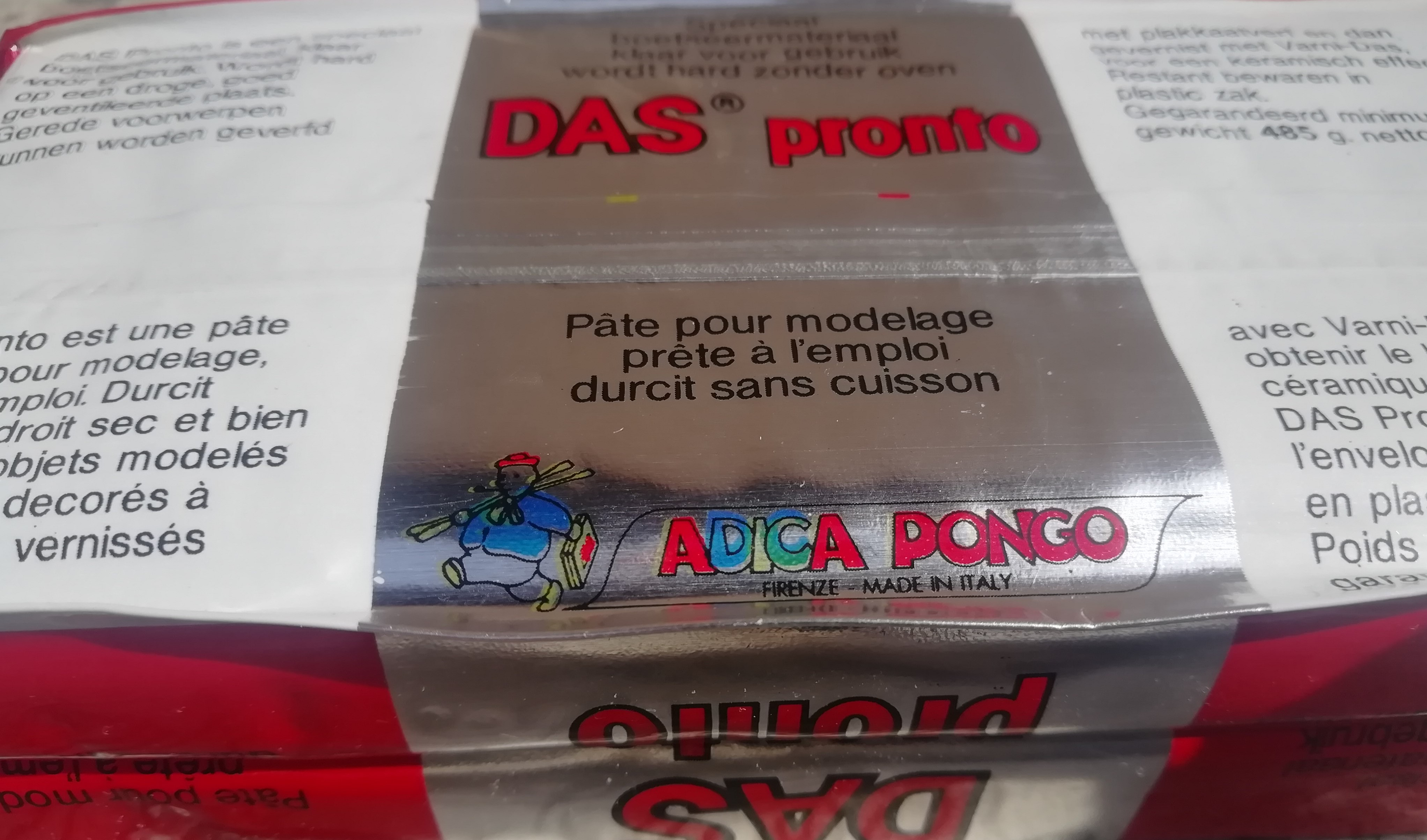 Back of a grey-coloured pack of DAS modelling clay, produced by Adica Pongo